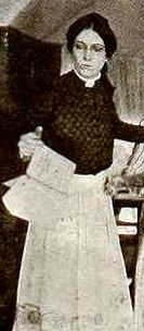 Still from the American film Heart of Twenty (1920) with Aileen Manning (1886 – 1946), on page 4974 of the June 19, 1920 Motion Picture News.